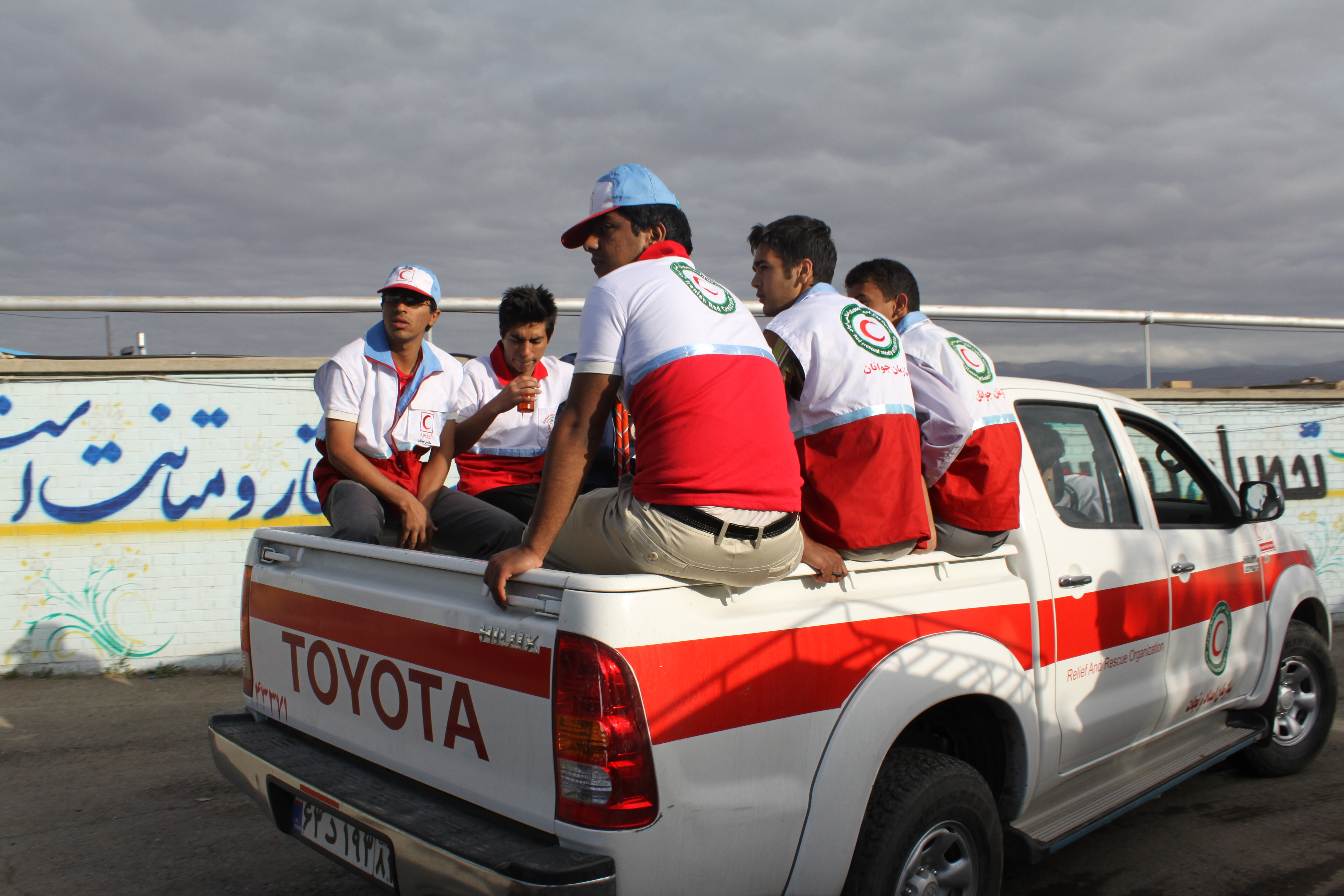 The 2012 East Azerbaijan earthquakes occurred near the cities of Ahar and Varzaqan in Iran's East Azerbaijan Province, on August 11, 2012, at 16:53 Iran Standard Time. The two quakes measured 6.4 and 6.3 on the moment magnitude scale, and were separated by eleven minutes. The epicenter of the earthquakes was 60 kilometers (37 miles) from Tabriz.